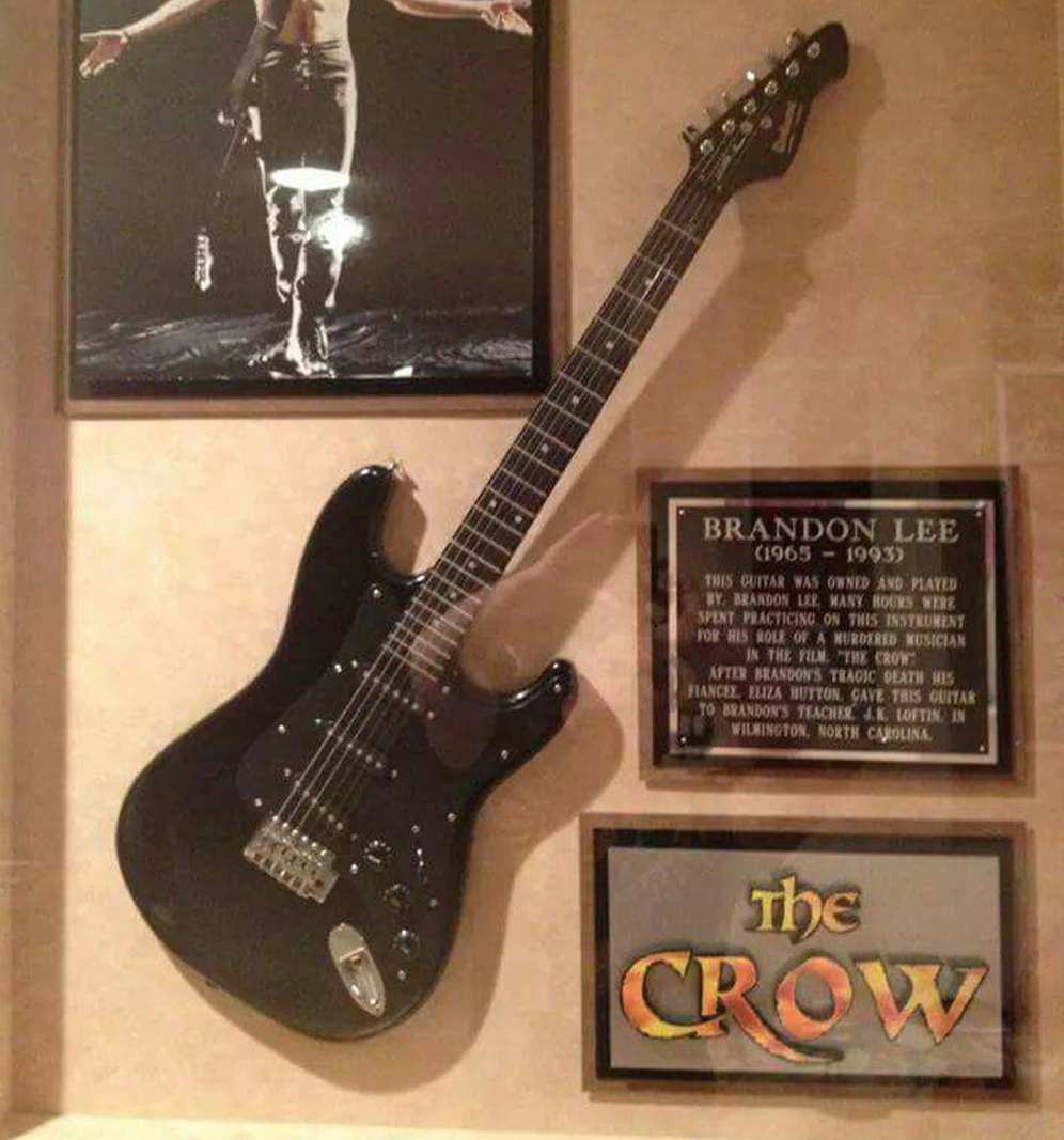 Brandon Lee guitar used to "The Crow" (Eric Draven)